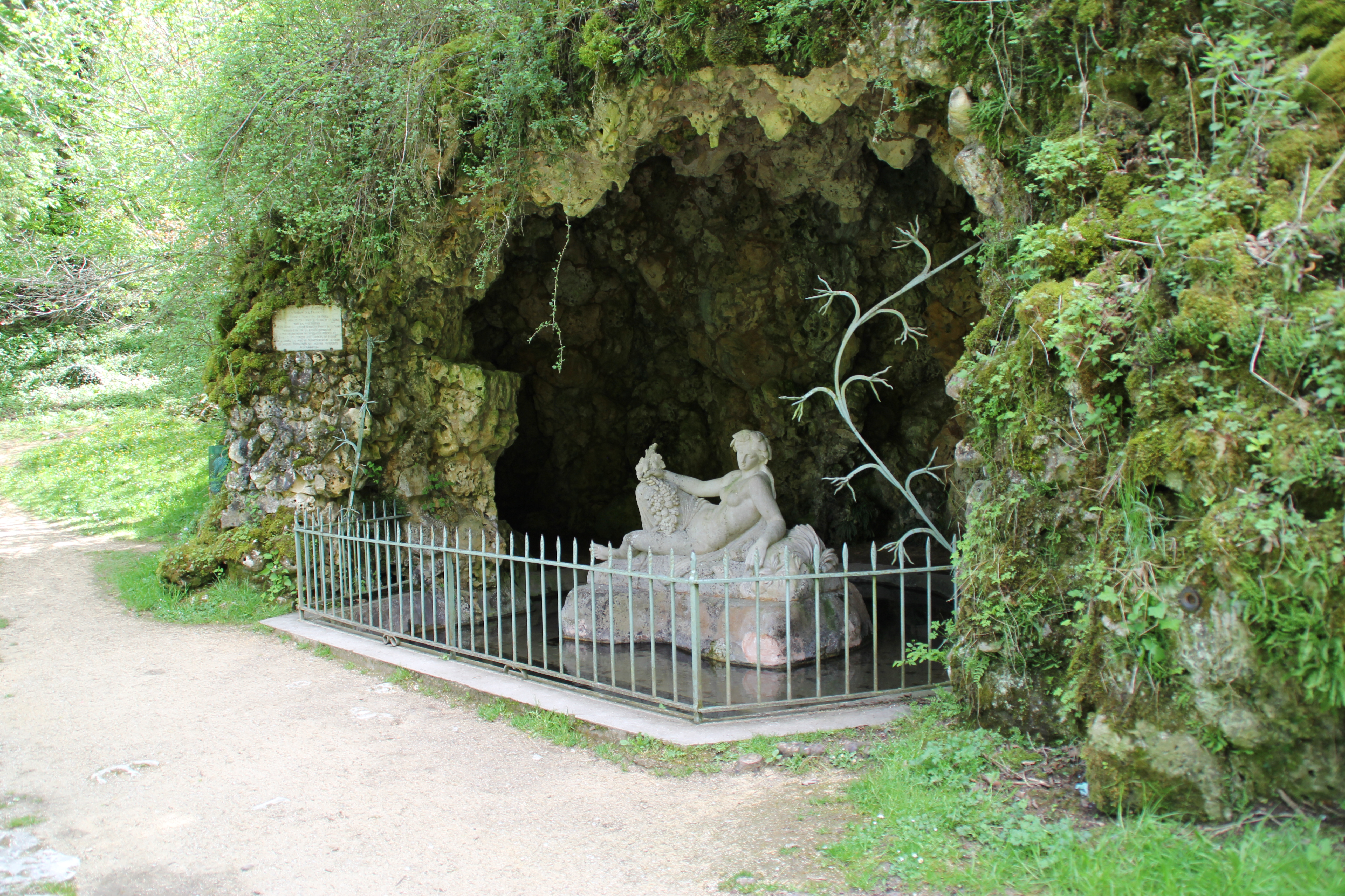 The Source de la Seine near Source-Seine, France